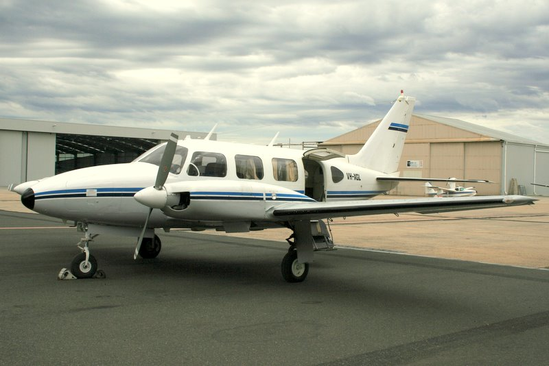 An early-build Piper PA-31 Navajo VH-XGL (c/no. 31-30) parked at Melbourne's Essendon Airport in Australia.